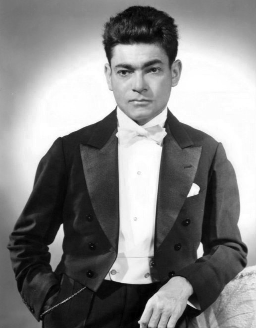 Publicity photo of Izler Solomon from the radio program Design for Happiness.